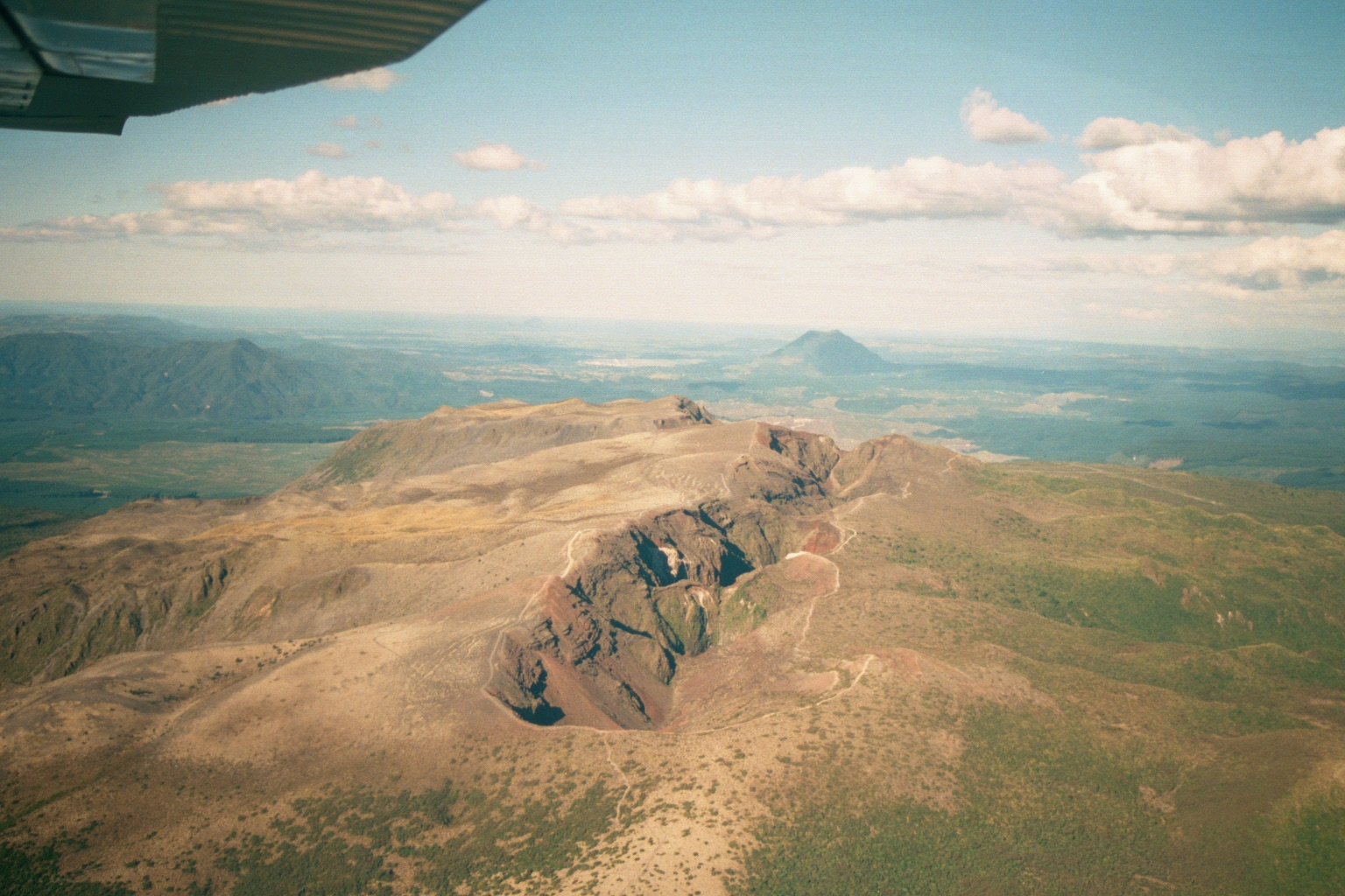 Aerial view of the south side of Mount Tarawera, Bay of Plenty region, North Island, New Zealand. Taken during a seaplane ride out of nearby Rotorua.